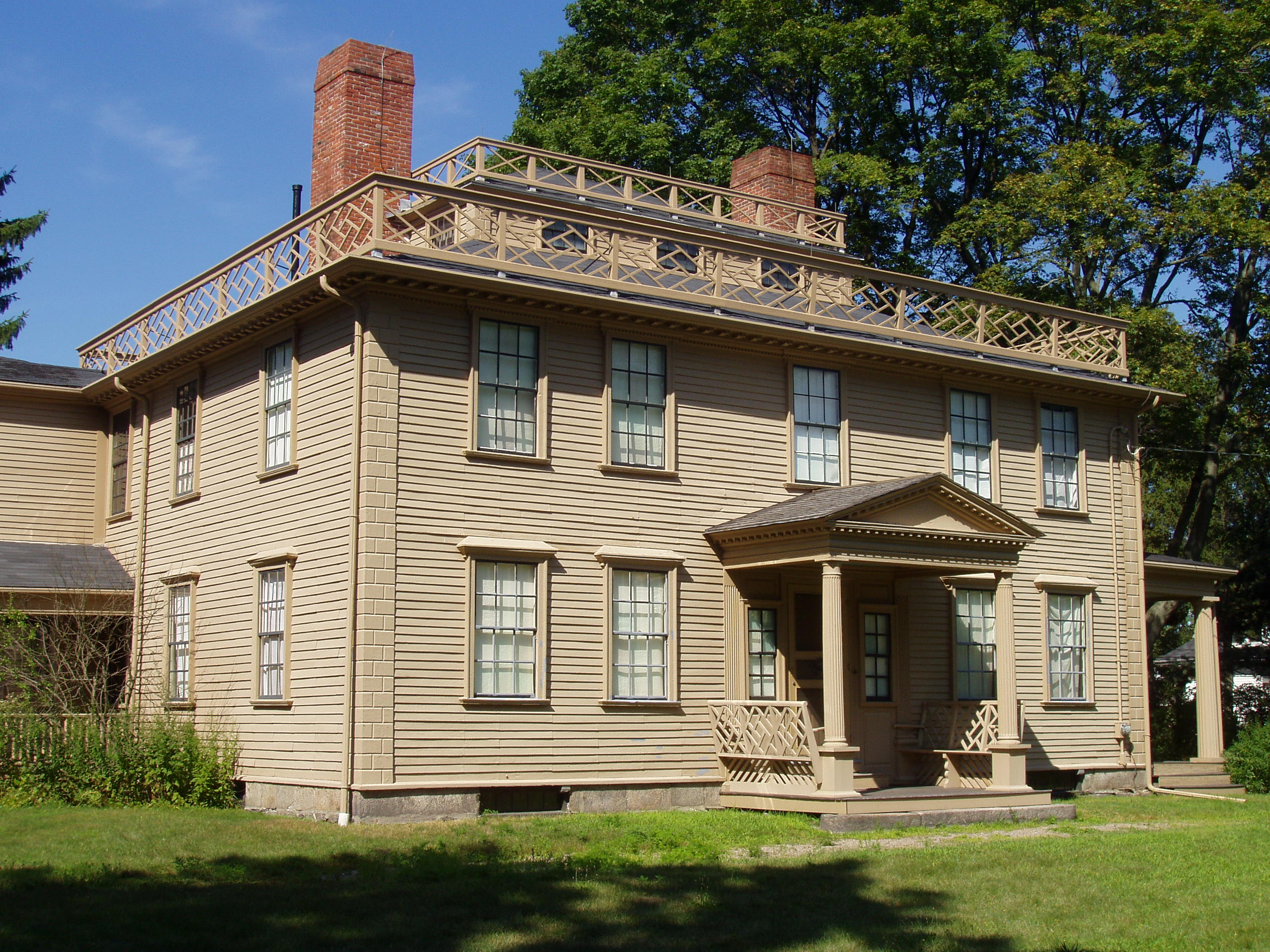 Josiah Quincy House, 20 Muirhead Street, Quincy, Massachusetts. Photograph taken by me, August 2005.